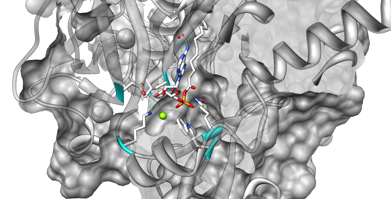 Binding pocket